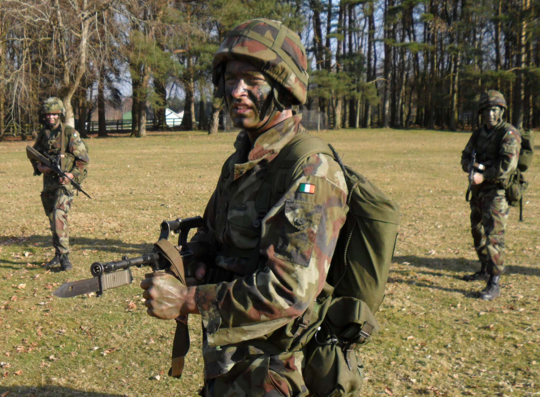 Learning about your personal weapon